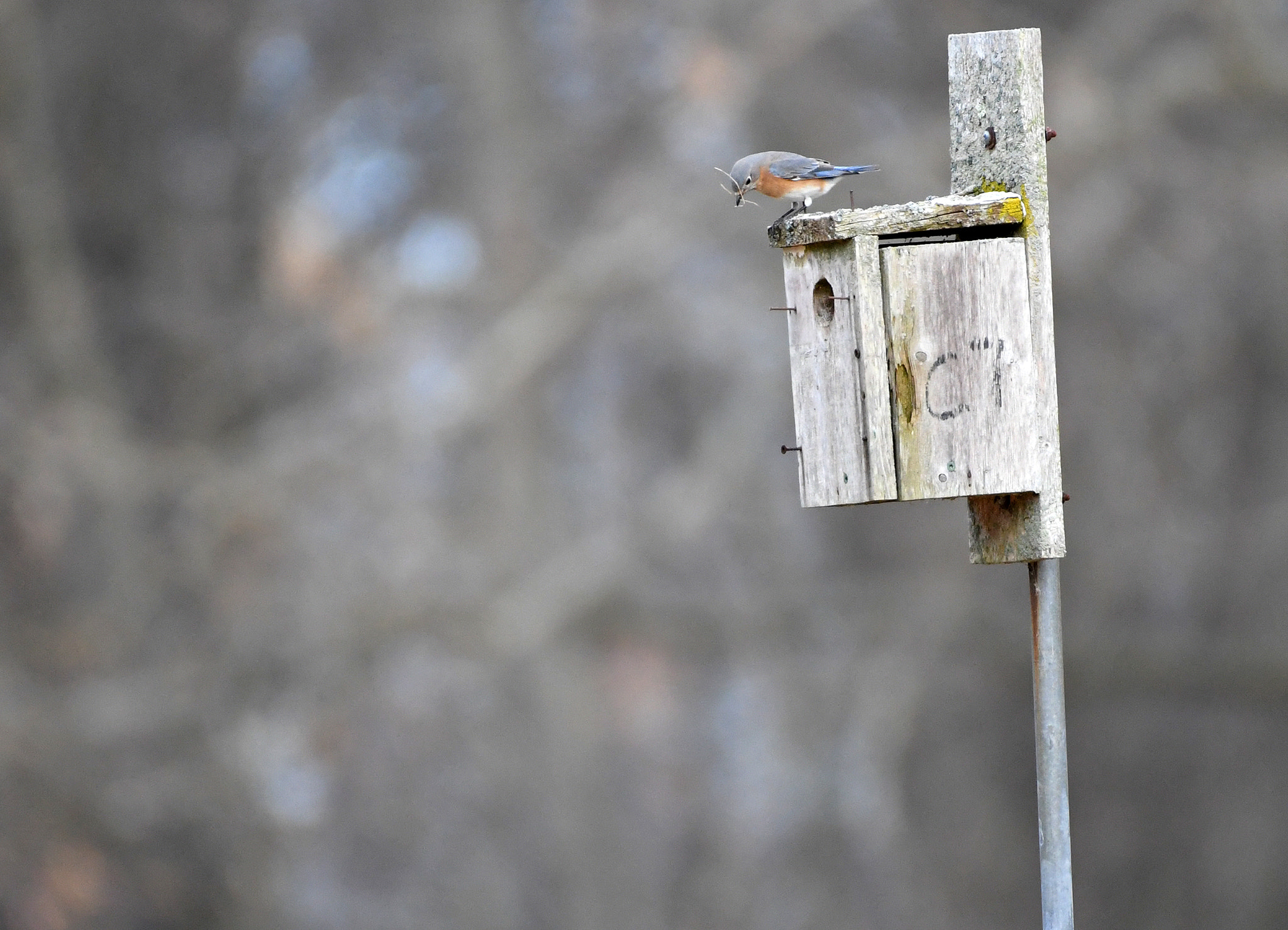 500px provided description: A Bluebird grabs a reed for its nest. [#birds ,#animals ,#wildlife ,#animal photography ,#nature photography ,#wildlife photography ,#nature photograph ,#nature pics ,#bird pictures ,#Animal Photograph ,#Animal Pics ,#Wildlife Pics ,#Wildlife Photograph ,#nature images ,#animal images ,#Bird Pics]